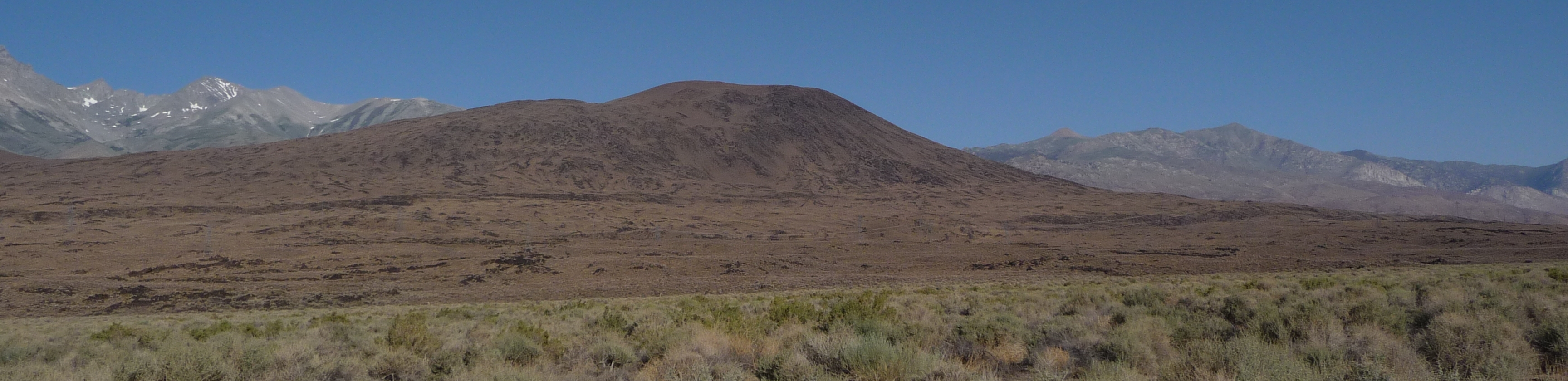 The Big Pine volcanic field and cinder cone — in the Owens Valley. Located near Big Pine and Fish Springs, in Inyo County, eastern California.